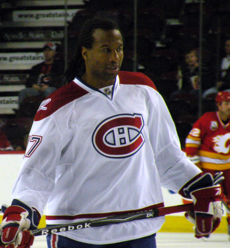 Montreal Canadiens forward Georges Laraque during warm-up prior to a National Hockey League game against the Calgary Flames, in Calgary.